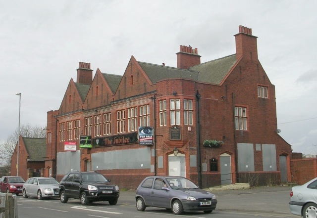 The Jubilee - Wakefield Road